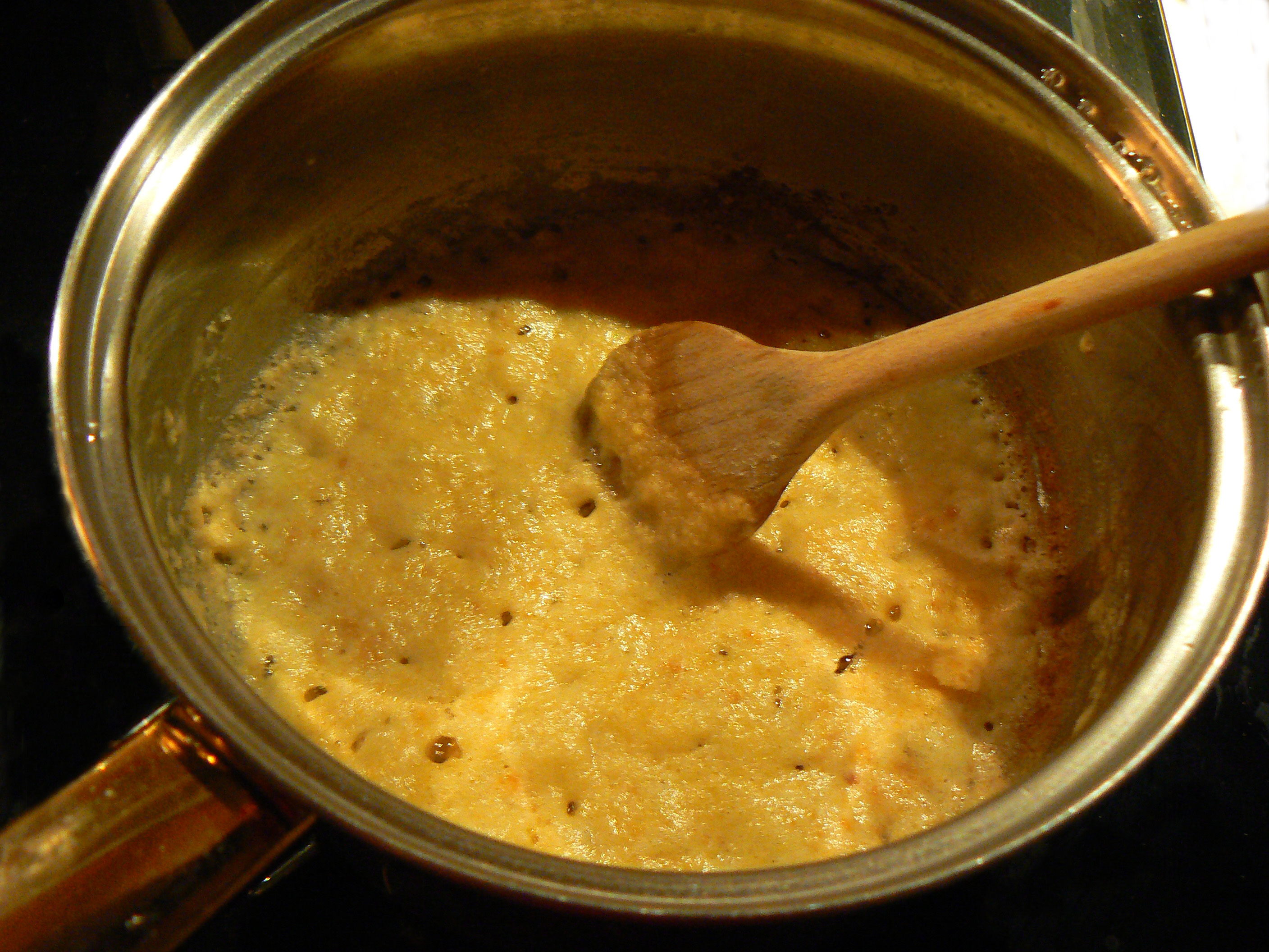 Roux being made